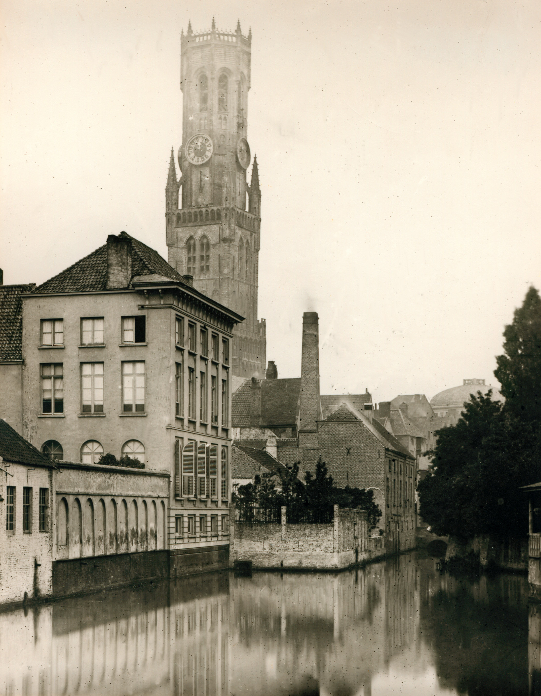 19th century (1864) photograph by Albéric Goethals (1843 - 1897), of the Rozenhoedkaai, near the Belfort in Bruges, Belgium.